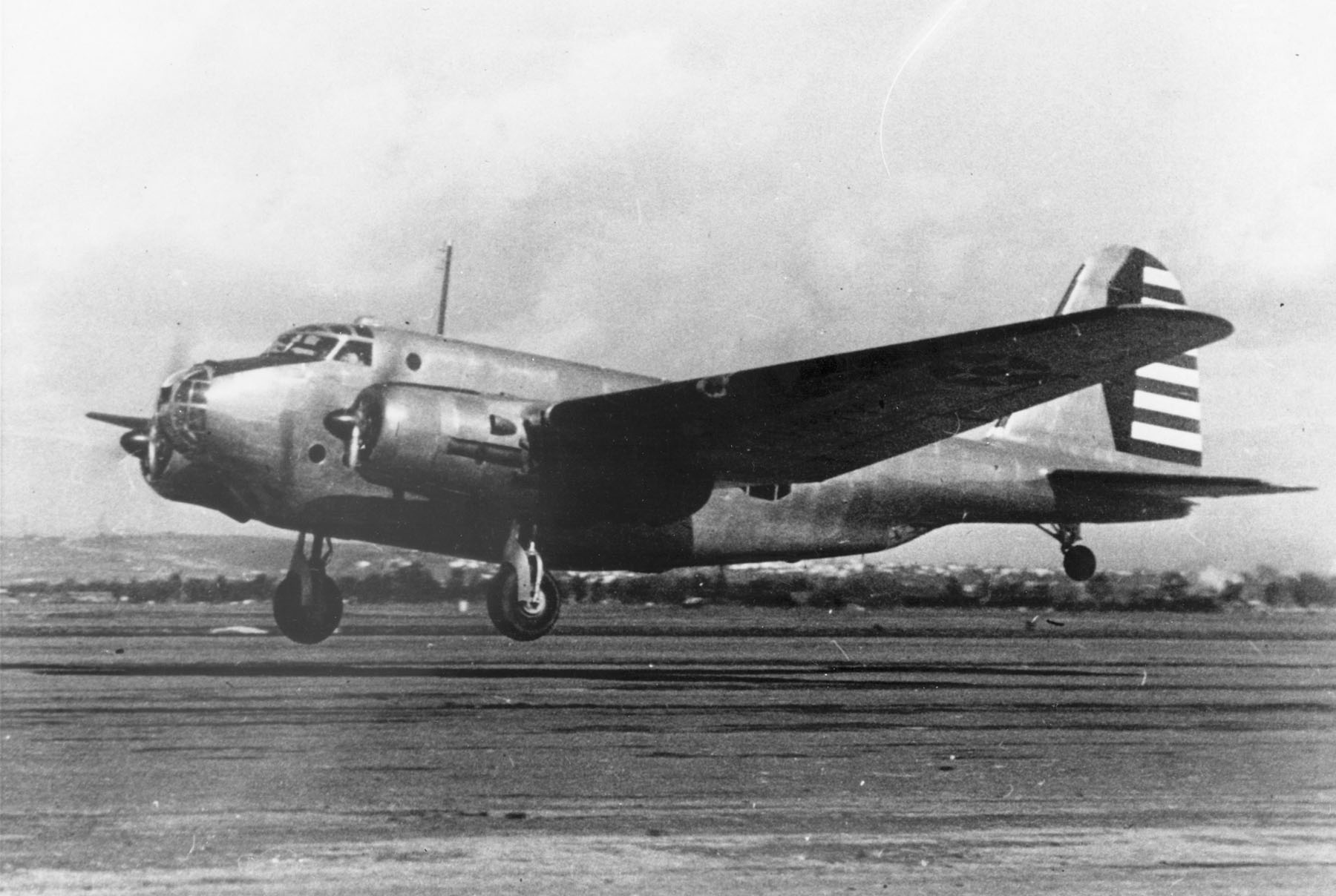 North American XB-21 (S/N 38-485).